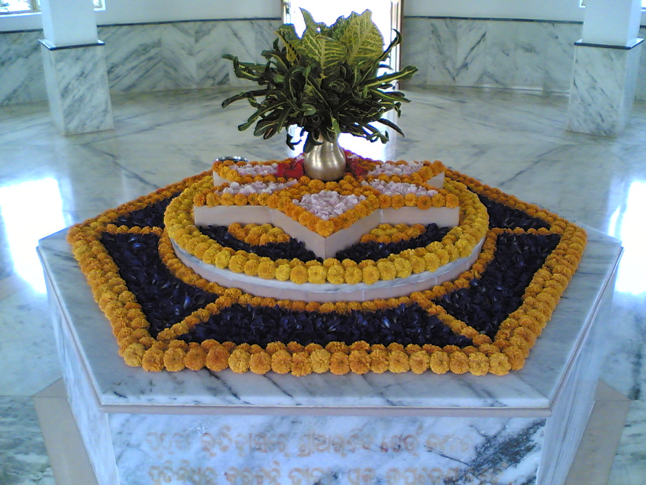 Shrine of Sri Aurobindo Kendra